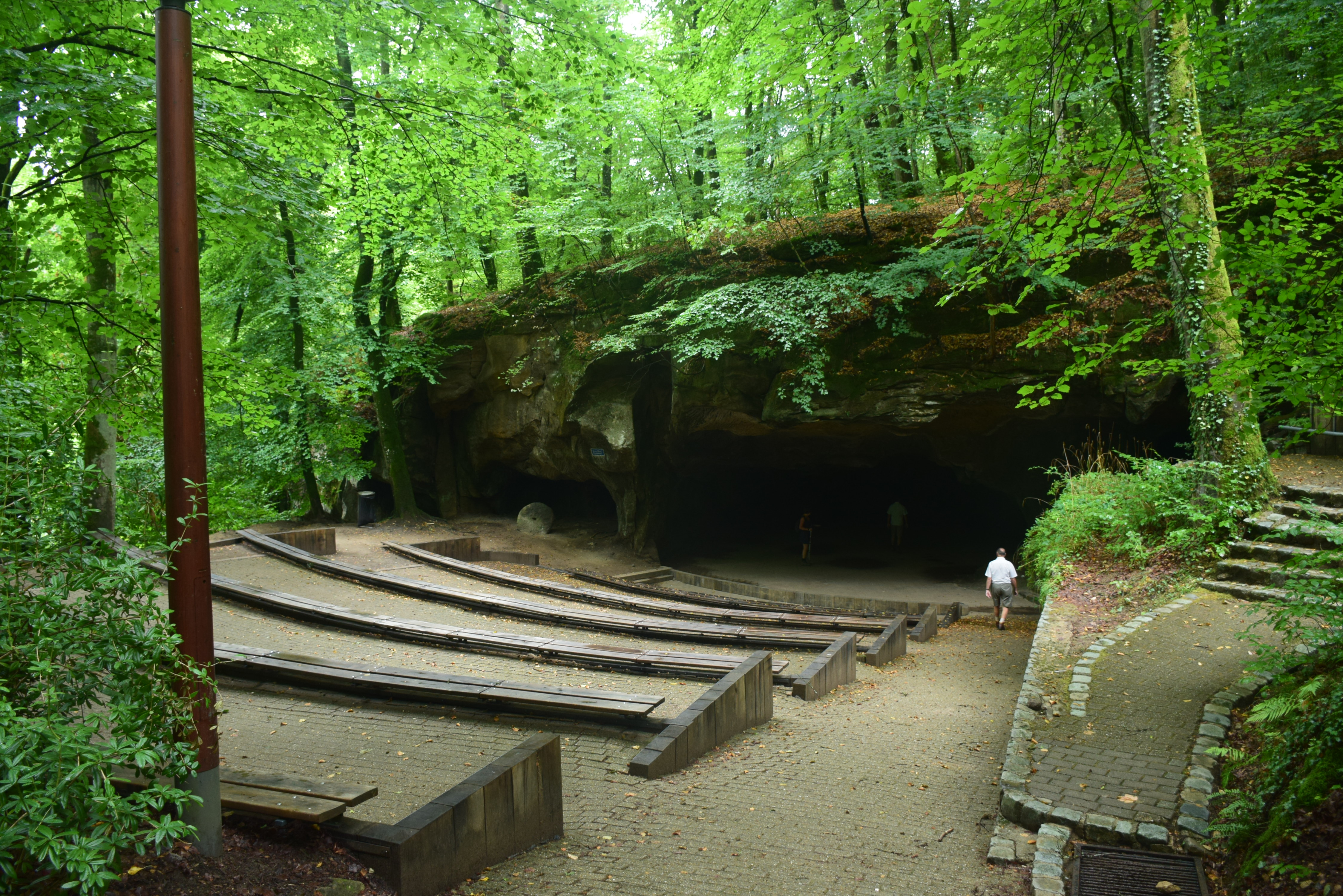 Breechkaul in Berdorf, Luxembourg. A semi-natural cave converted into an amphitheater for cultural events